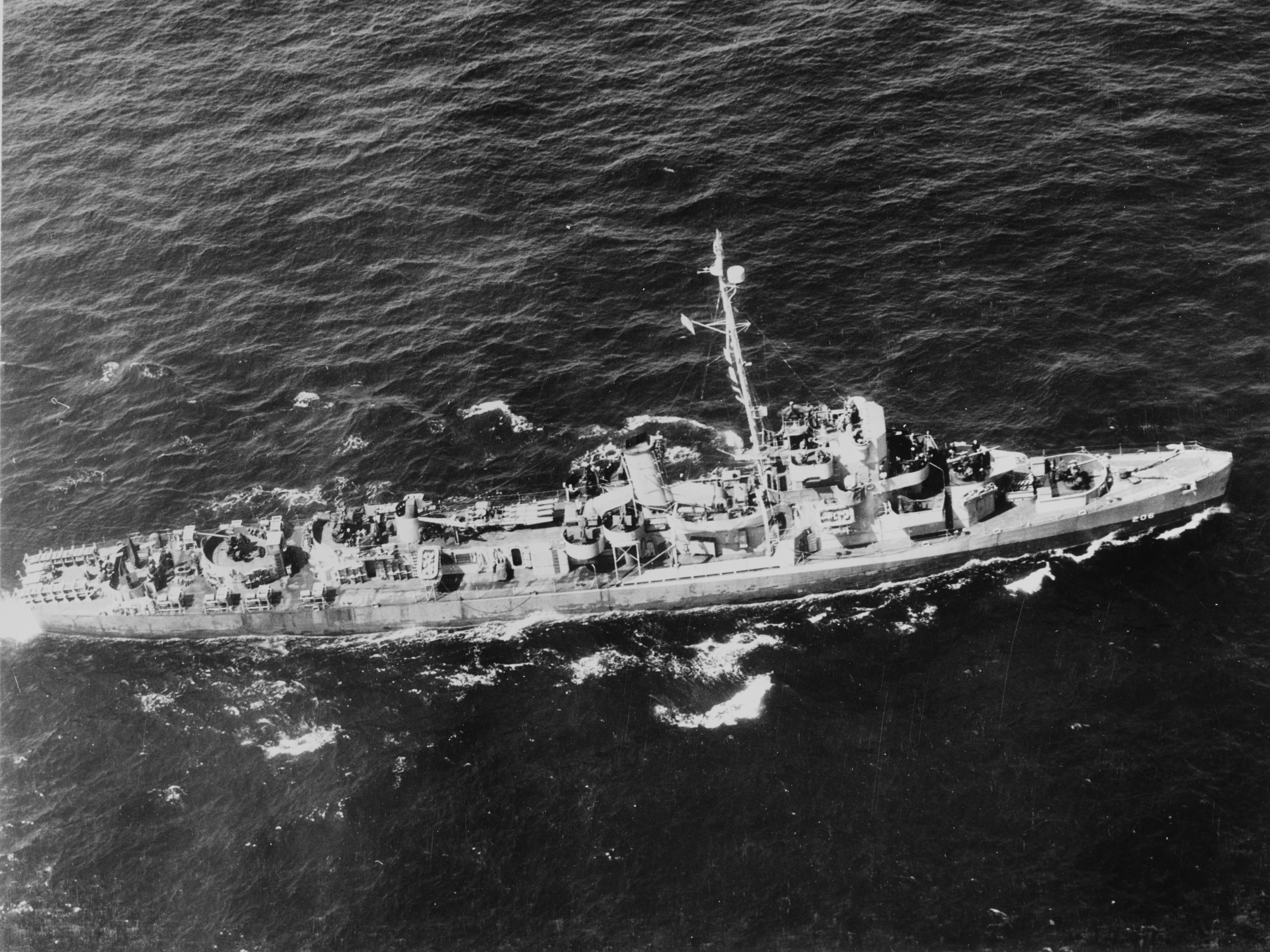 The U.S. Navy destroyer escort USS Liddle (DE-206) underway off New York (USA) on 3 May 1944.